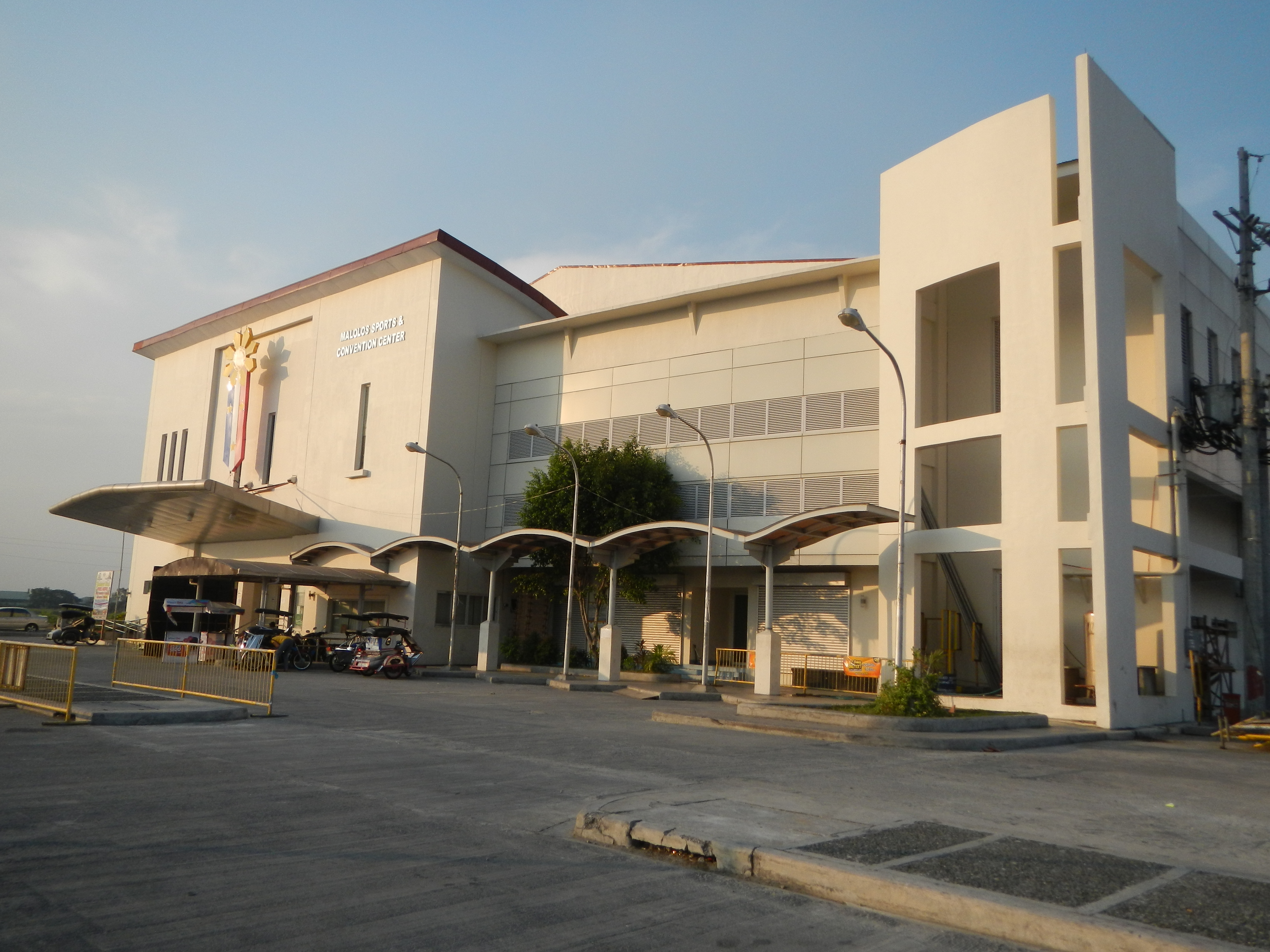 Malolos Sports and Convention Center, Basketball Sports Stadium, Convention Center, and Athletics & Sports 10 hectares Proclamation No. 597 April 2, 2004 geographical coordinates: 14° 50' 36" North, 120° 50' 18"East Inaugurated June 25, 2010, in MacArthur Highway in Barangay Bulihan, Malolos City.